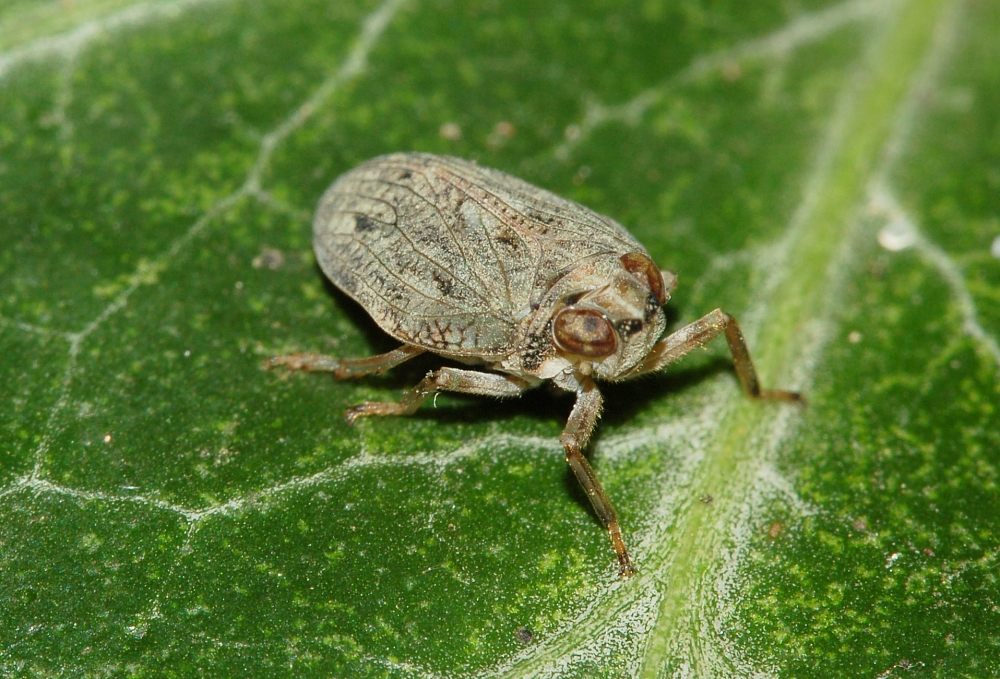 Issus coleoptratus (Fabricius, 1781), Fulgoromorpha, Nied, Frankfurt am Main, Germany